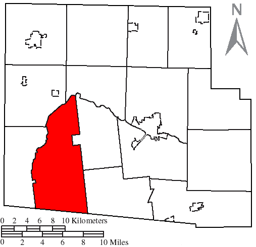 Made by the US Census and modified by myself to highlight the township